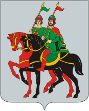 Borisoglebsk rayon (Yaroslavl oblast), coat of arms